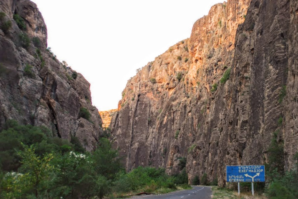 Road to Noravank monastery in Vayots dzor region of Armenia.